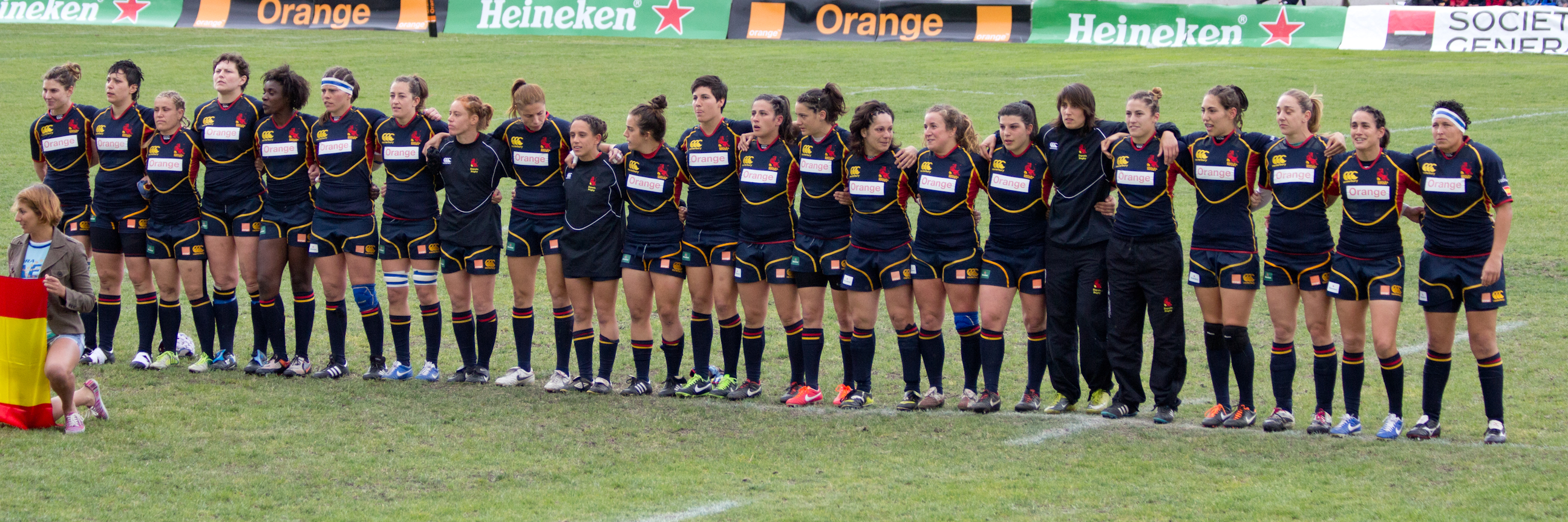 Spain national rugby union team during the Qualifiers Tournament for WRWC France 2014.